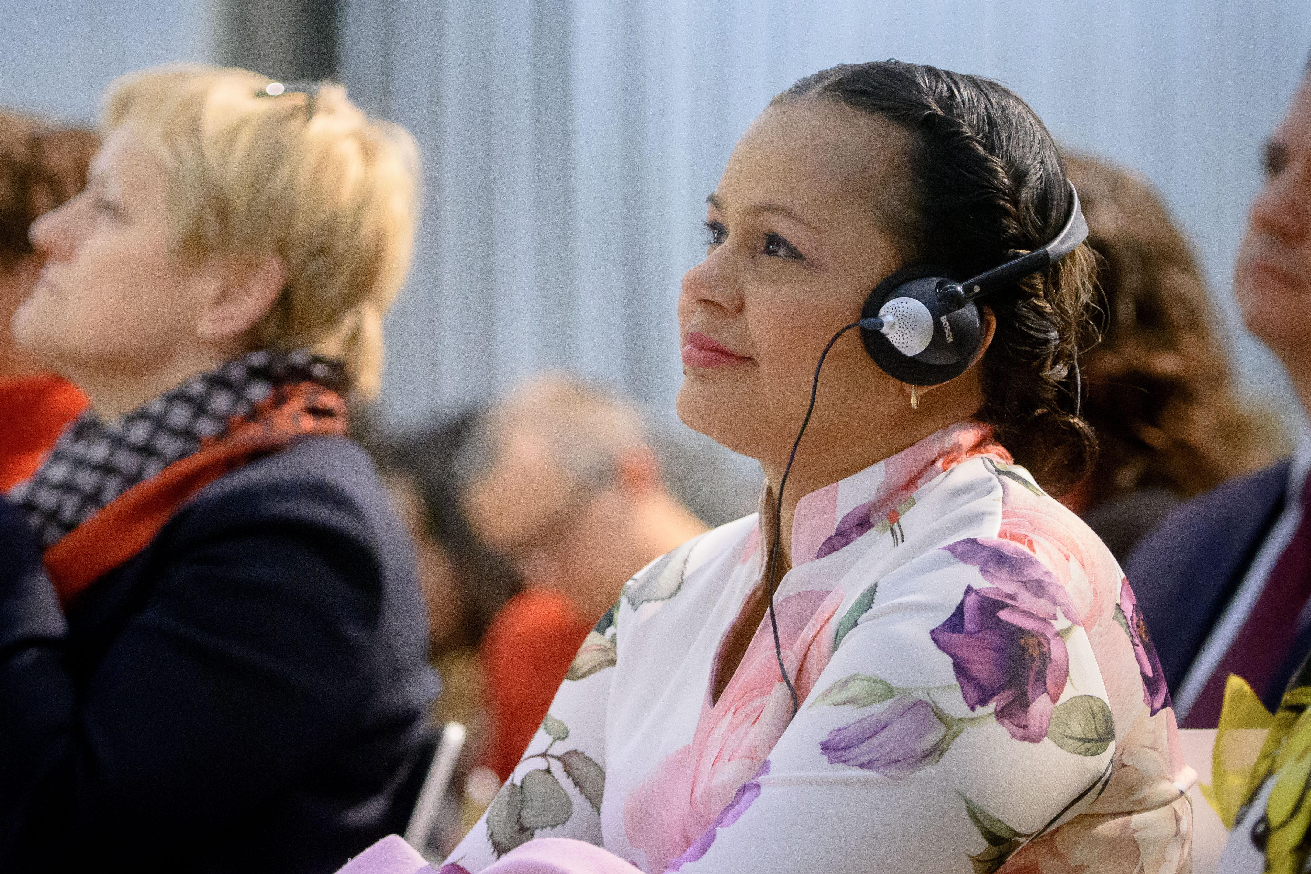 Mayerlis Angarita Robles (Frauenaktivistin) Foto: stephan-roehl.de